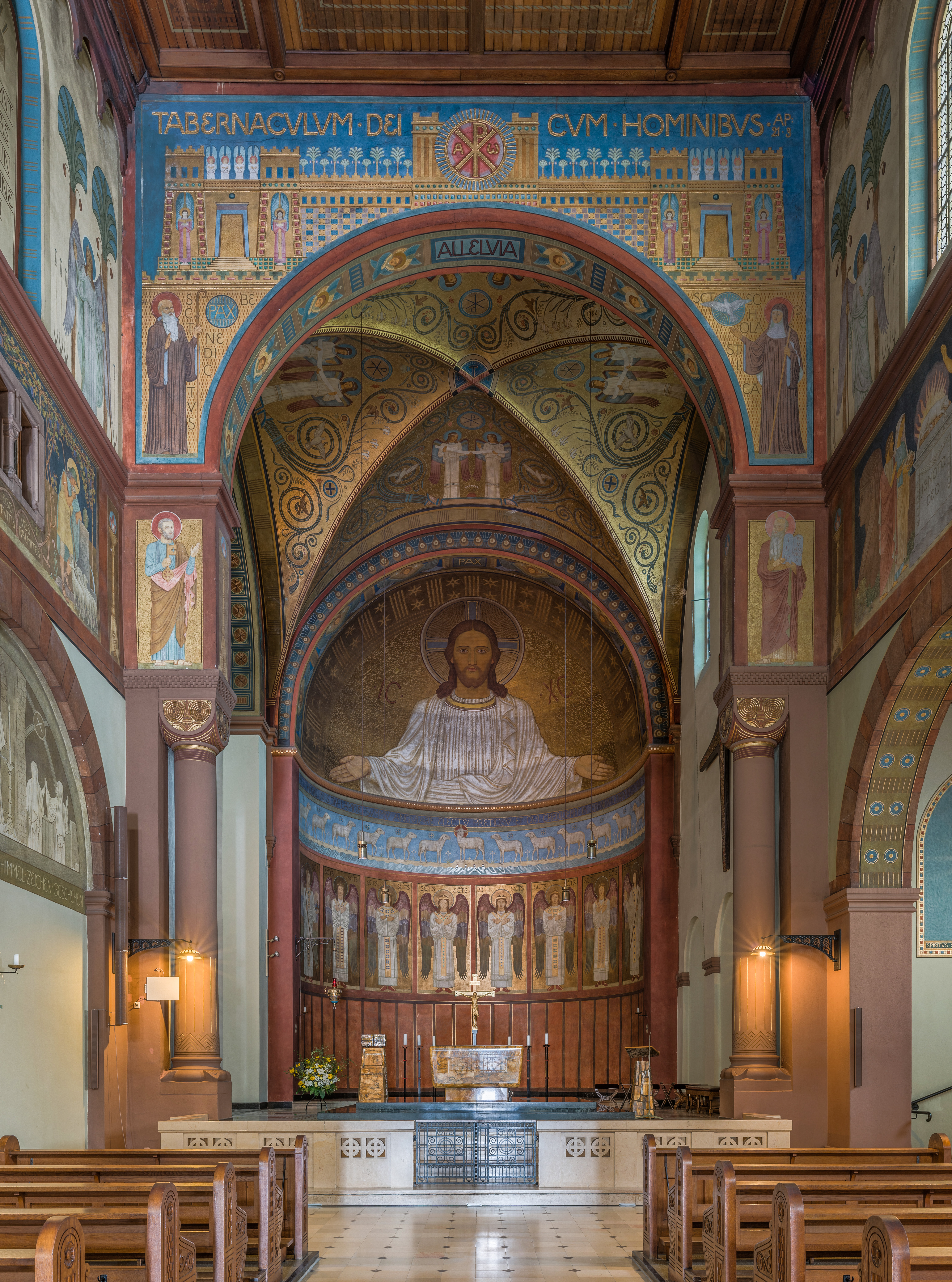 The sanctuary of Eibingen Abbey, aka Abtei St. Hildegard